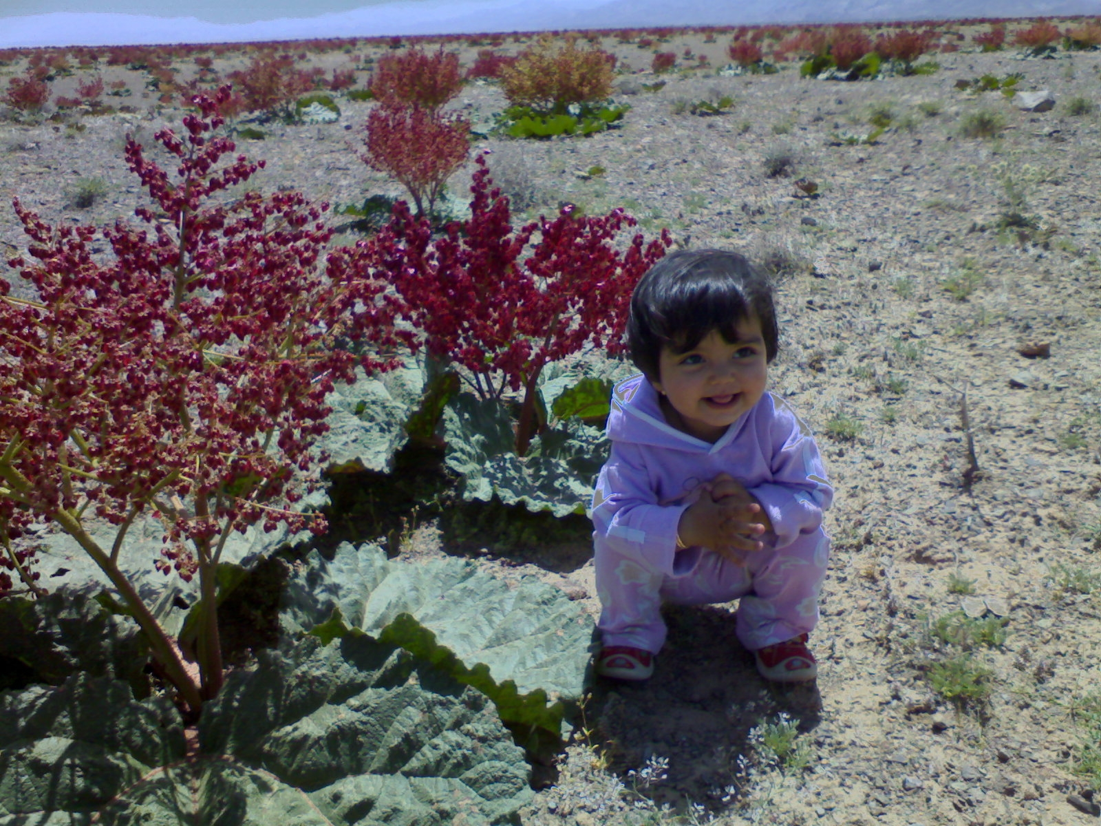 a special Medicinal plant in desert called Rivas. or Rheum (plant)or Rheum (plant)